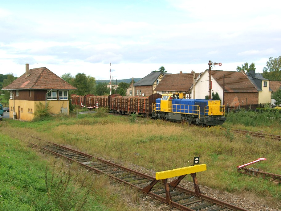 Railwaystation Dorndorf in Thuringia